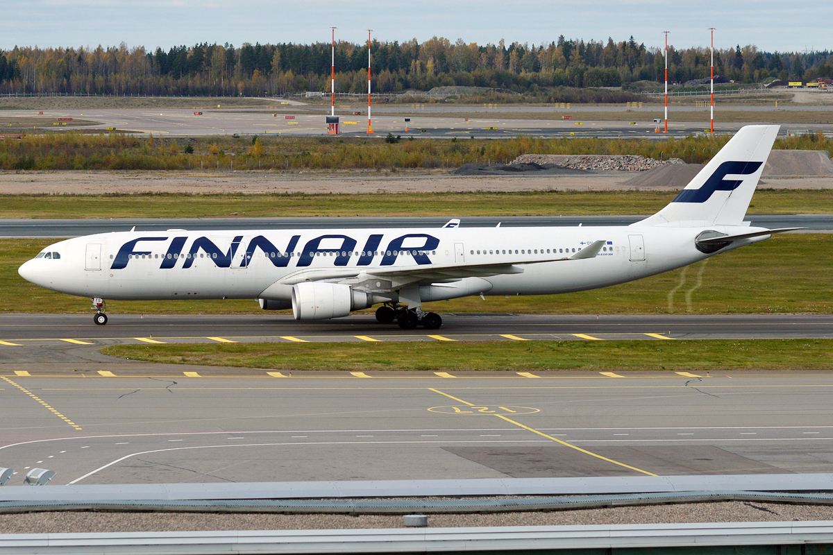 Finnair, OH-LTS, Airbus A330-302E